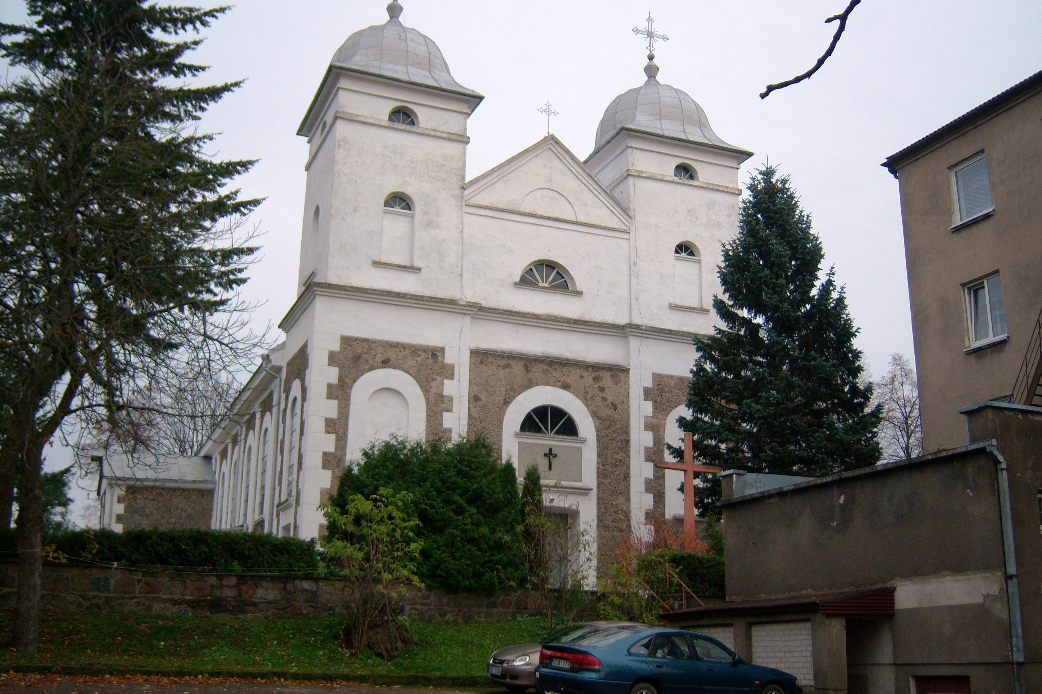 Church facade, Skuodas, Lithuania